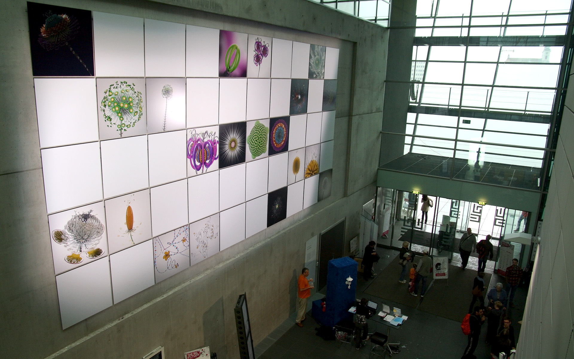 At Ars Electronica Center during Ars Electronica 2012 in Linz, Upper Austria.